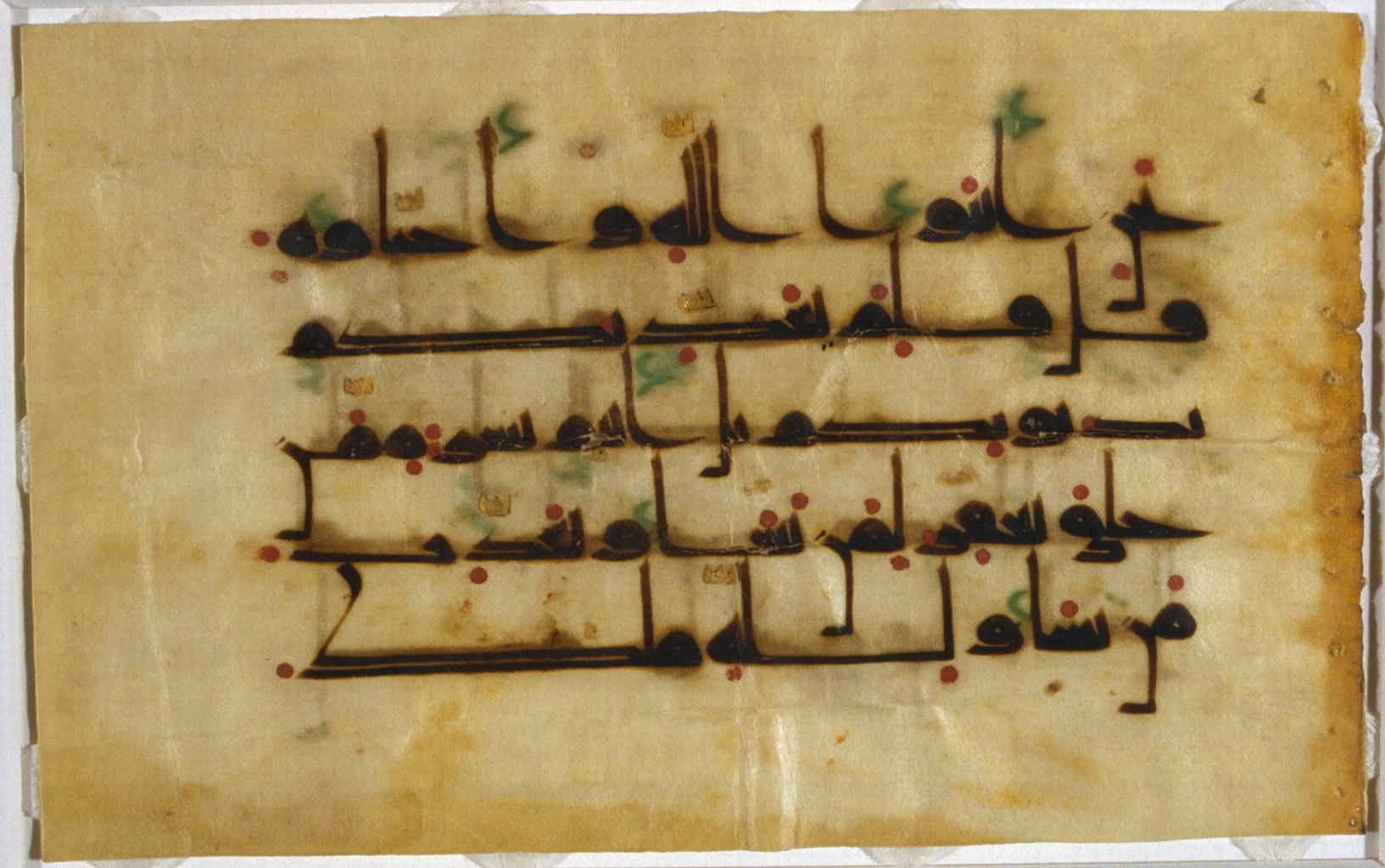 The beginning of verse 18 from the 5th chapter of the Qur'an entitled al-Ma'idah (The Table). The text is exectued in a Kufi script similar to style D.Vb, at 5 lines per page in horizontal format. This particular script is differentiated by the upper stroke of the letter kaf (k) which slants to the right before turning to the left. The text is executed in black ink, while red dots indicating vocalization may have been added later. Diacritical marks also appear to have been added subsequently: for example, glottal stops (hamza) are marked in green ink, while duplications of consonants (tashdid) are executed in gold ink.